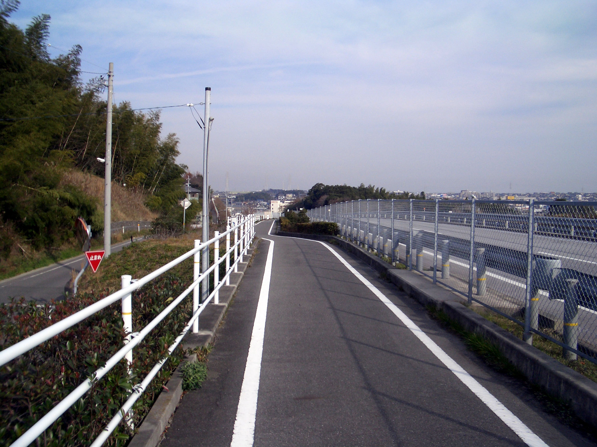 Aichi prefectural road 511, Taketoyo-Obu Cycling Road (Inari T, Handa, Aichi)